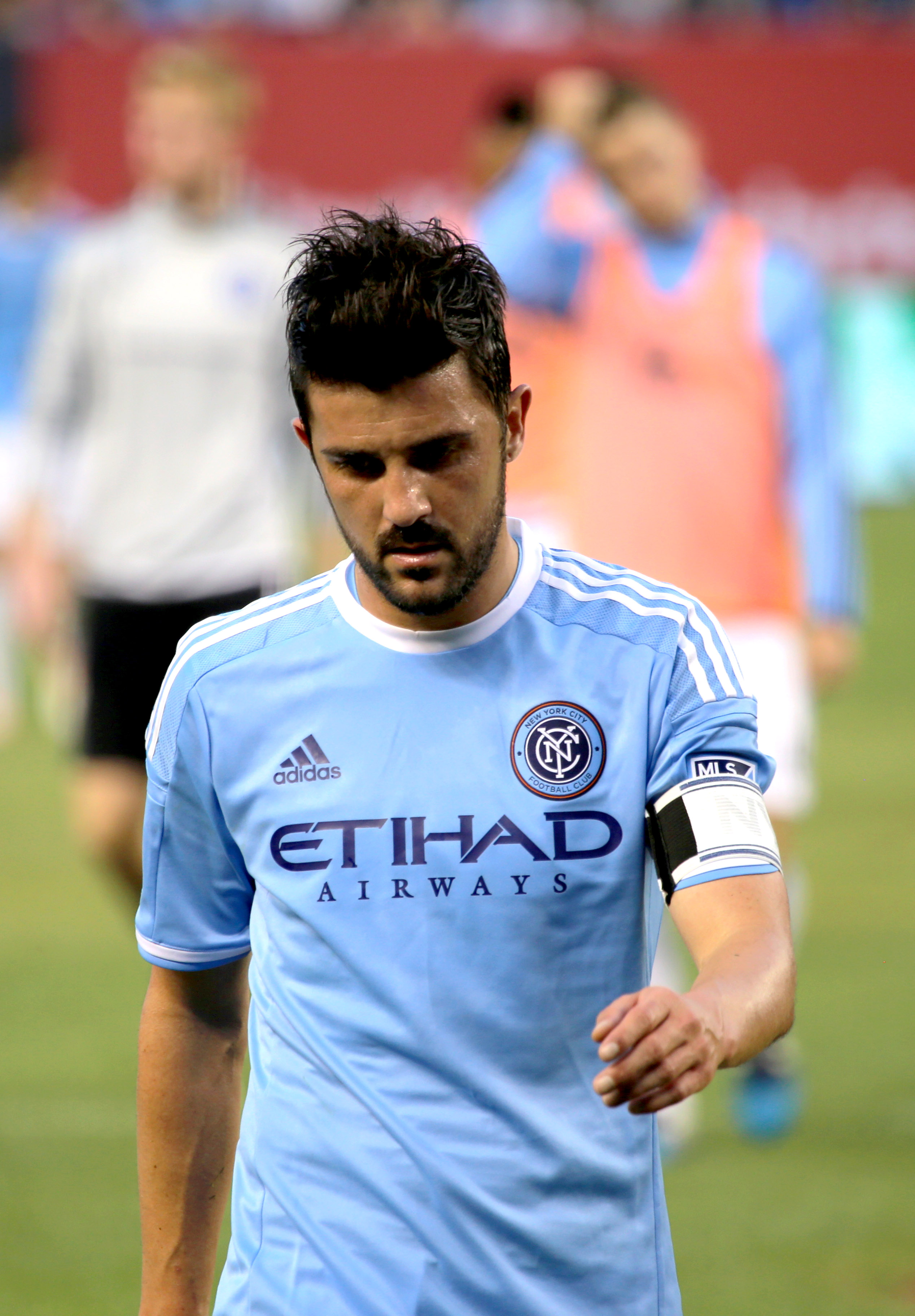 David Villa heads to the locker room at the half.